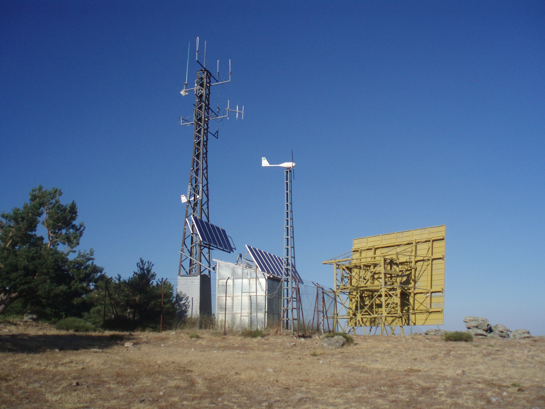 Summit of Mount Abantos, situated in the Guadarrama mountain range, central Spain.